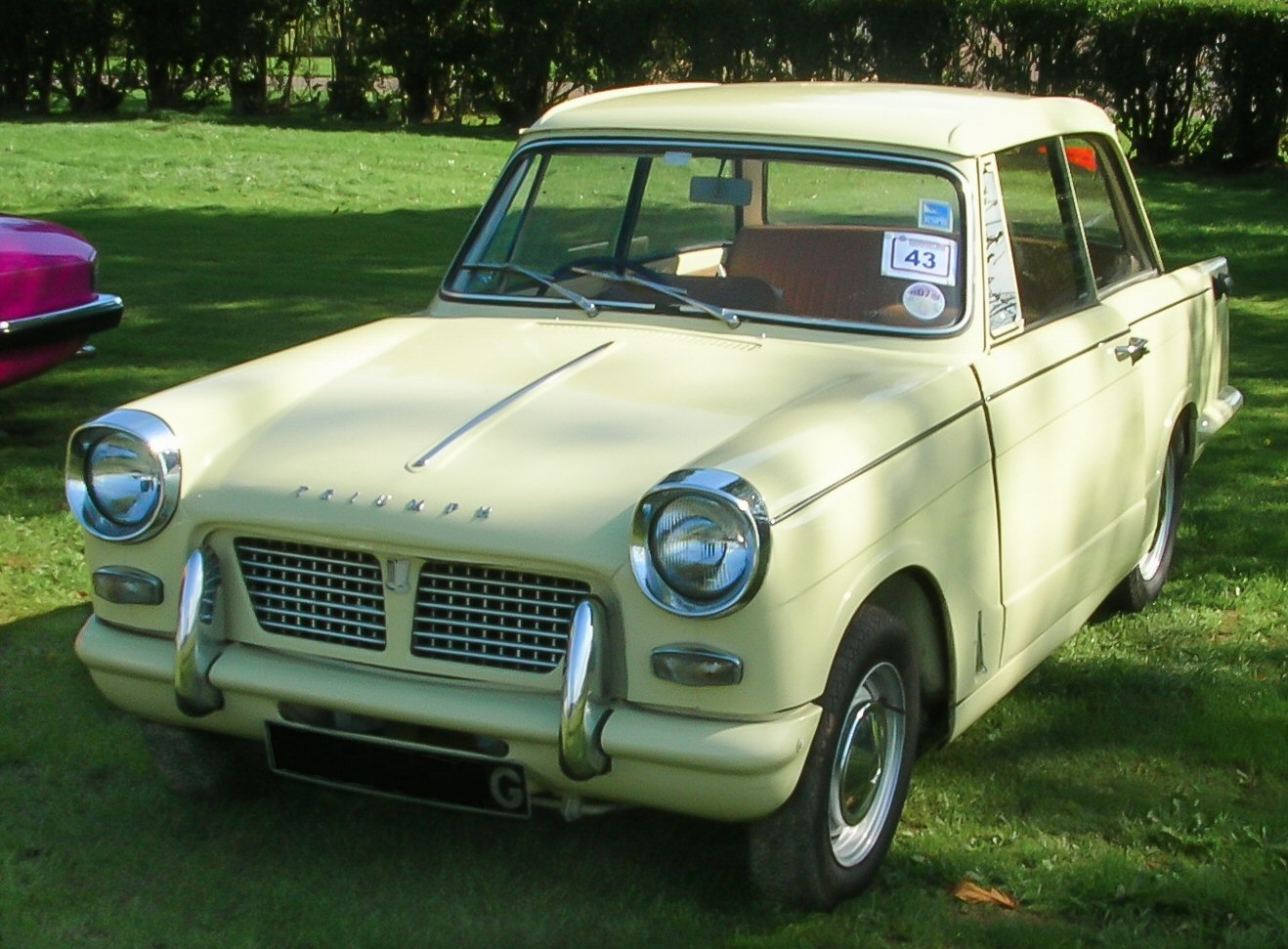 A 1968 Triumph Herald 1200. Photographed at the Coventry Festival of Motoring 2006.